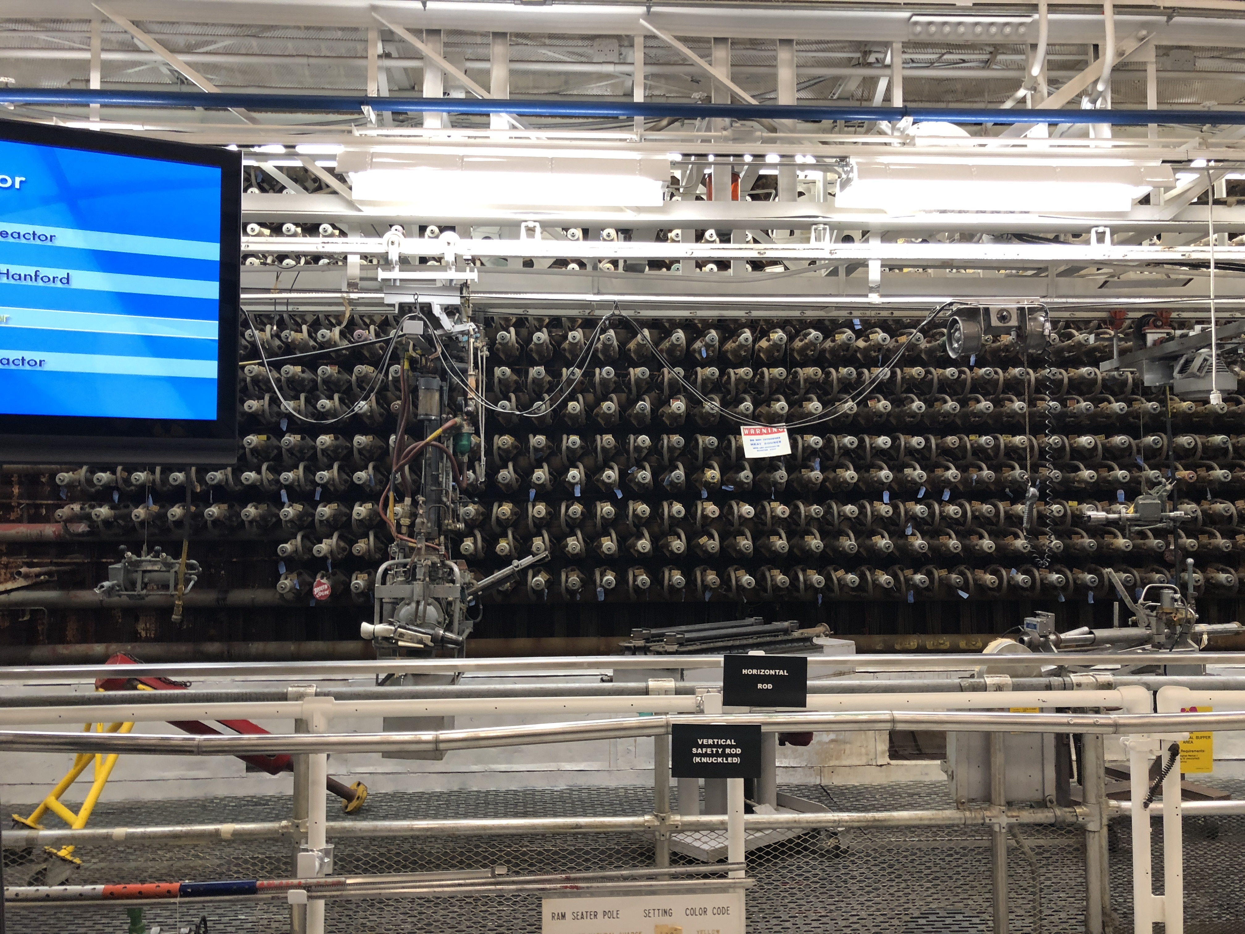 Face and crane of the B reactor. Taken on July 19th 2018.